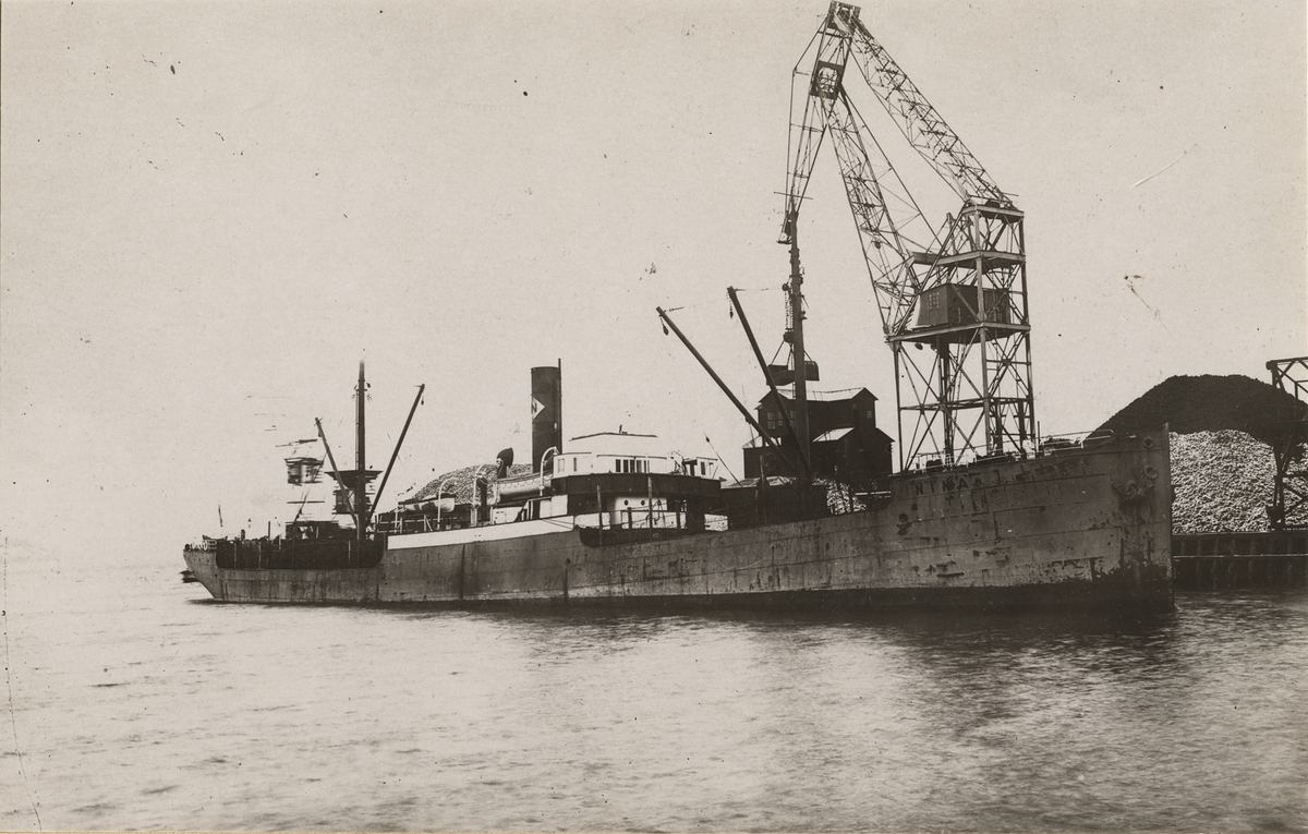 General cargo ship NINA (IMO 5252660) built at A.G. Neptun Schiffswerft & Maschinenfabrik, Rostock (yard № 183, completed: 11-1899) as MARTHA RUSS for Reederei Ernst Russ, Hamburg, later names: 1921 FREDRIK LARSSEN, 1927 NINA, 07-07-1963 BU Helsinki; collection J. Robert Boman (1926 - 2002) owned by Sjöhistoriska museet.